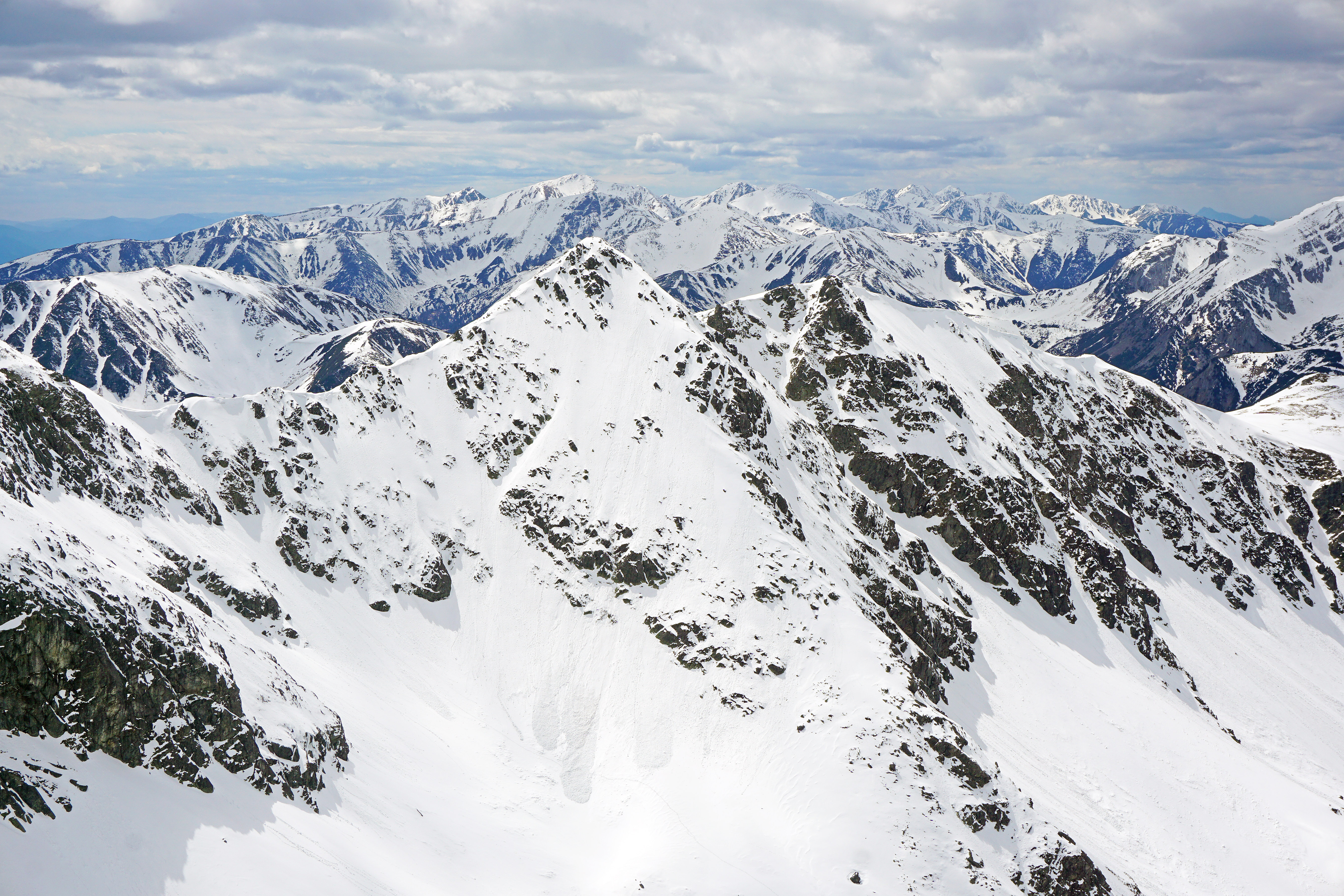 Panoramic view towards Pośrednia Turnia from Kościelec, Tatra National Park, Zakopane, Poland.